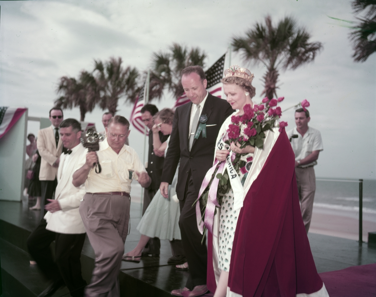 Mrs. America 1956, Ramona Deitemeyer, with her husband at Ellinor Village in Volusia County.